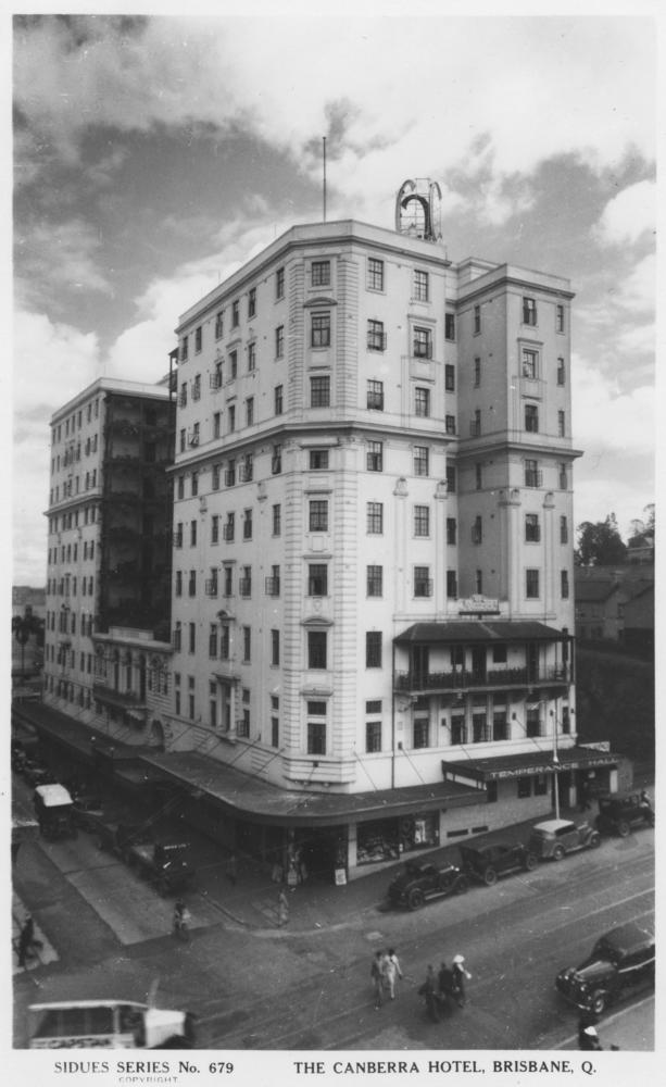 Canberra Hotel, Brisbane, ca. 1939. Post card showing a view of the Canberra Hotel, which was on the corner of Ann Street and Edward Street, Brisbane. Sidues Series Number 679.